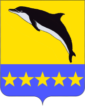 Coat of arms of Nebug, Tuapse rayon, Krasnodar Krai, Russia.